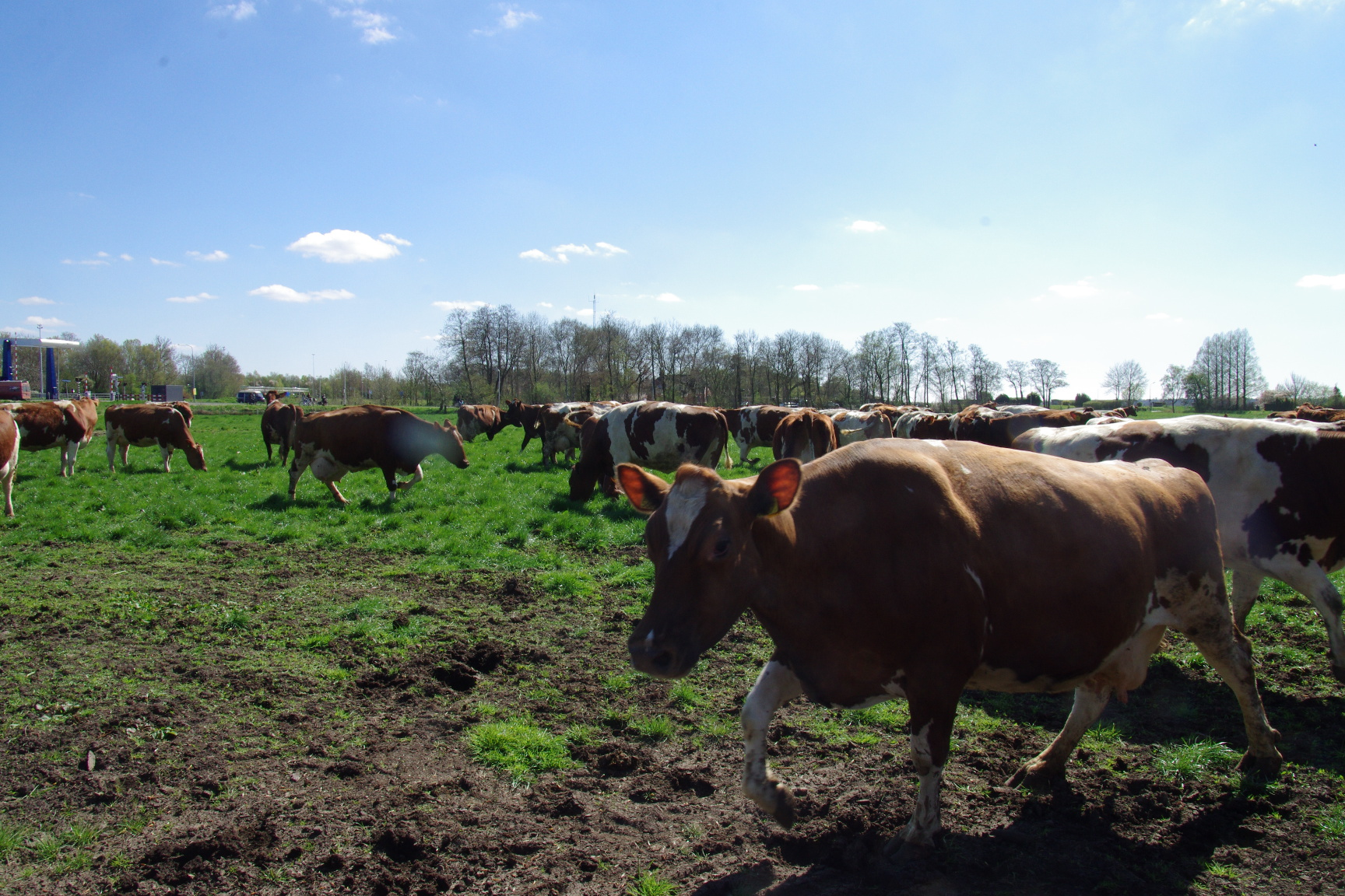 The Red and White Dutch Friesian is a rare breed in The Netherlands.